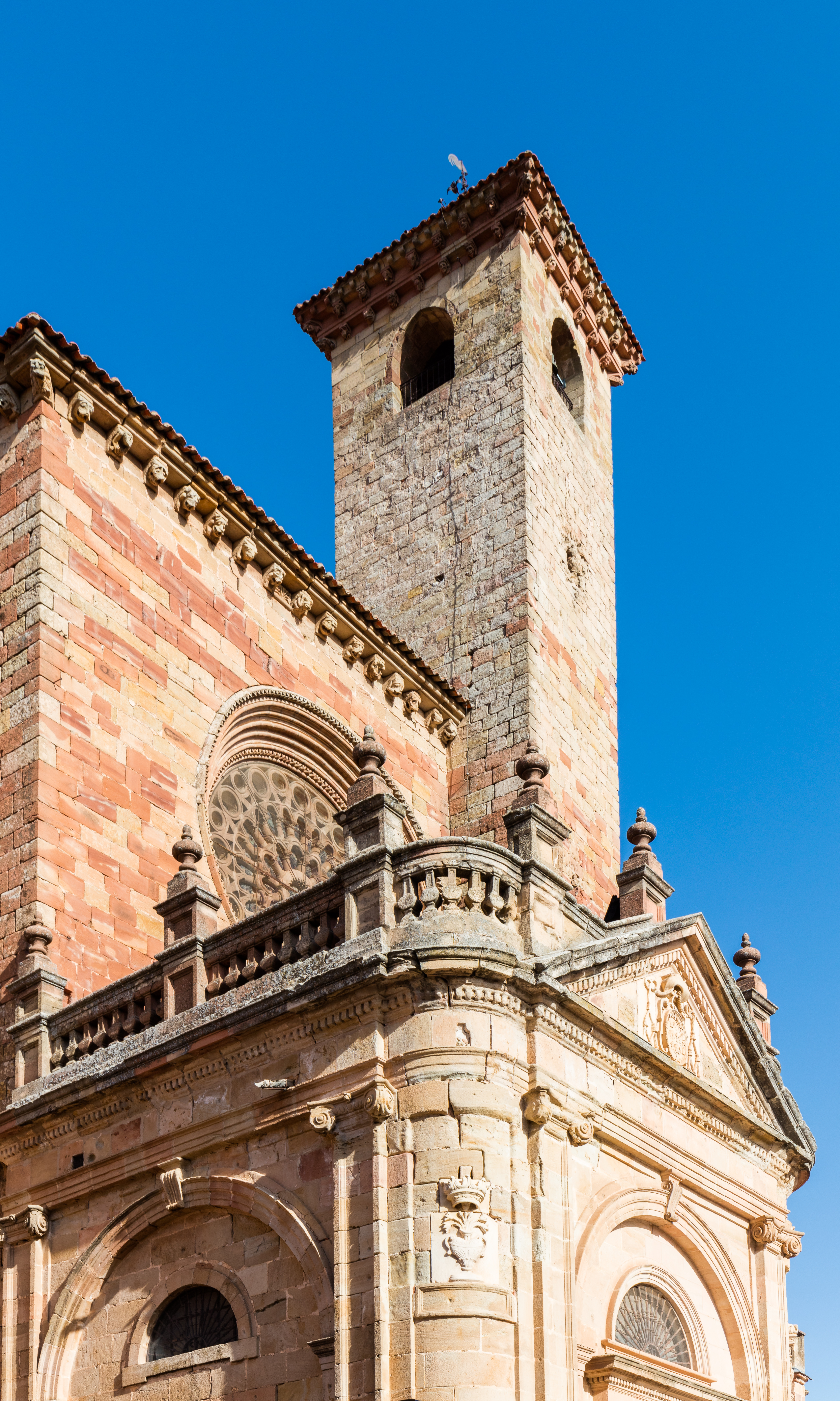 Cathedral of Santa María, Sigüenza, Spain